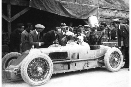 Emilio Materassi on Talbot Darracq 700, Italian Grand Prix of 1928